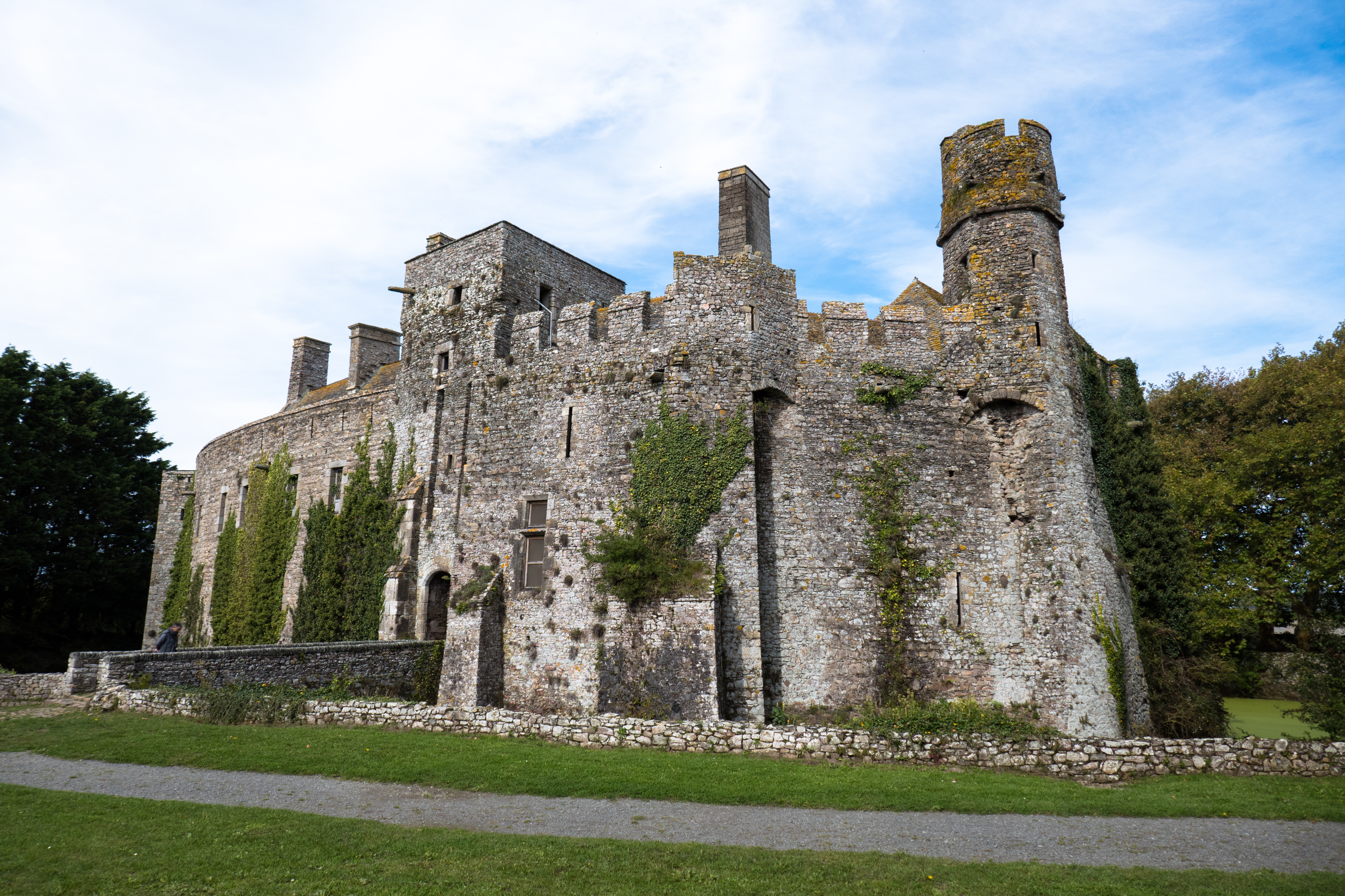 Château de Pirou, keep, front-side